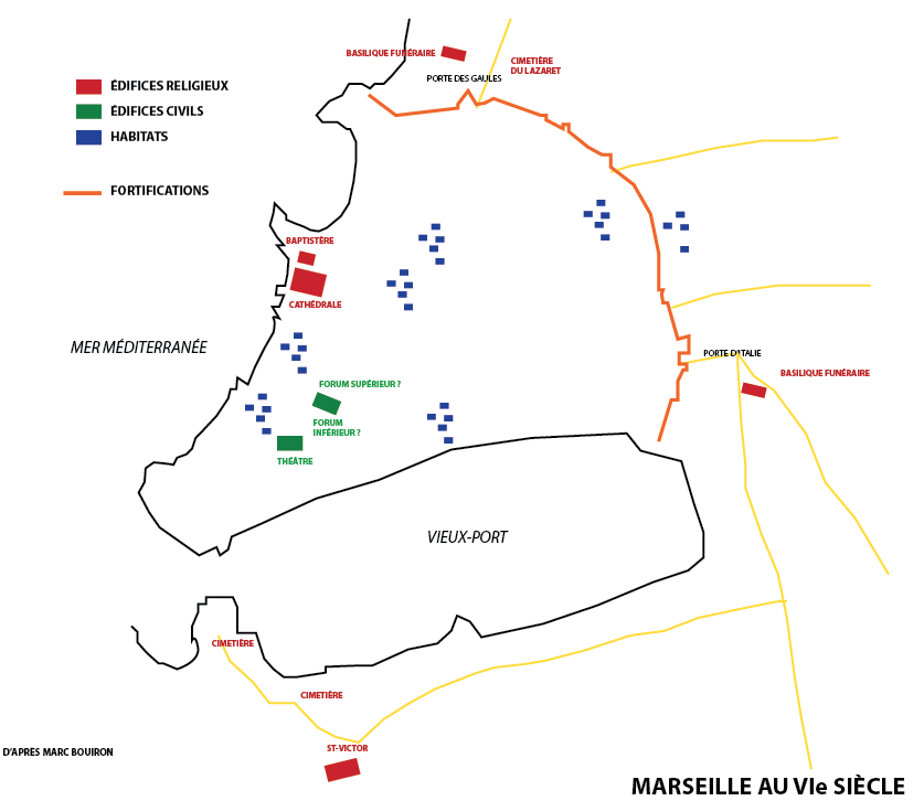 Marseille au VIe siècle